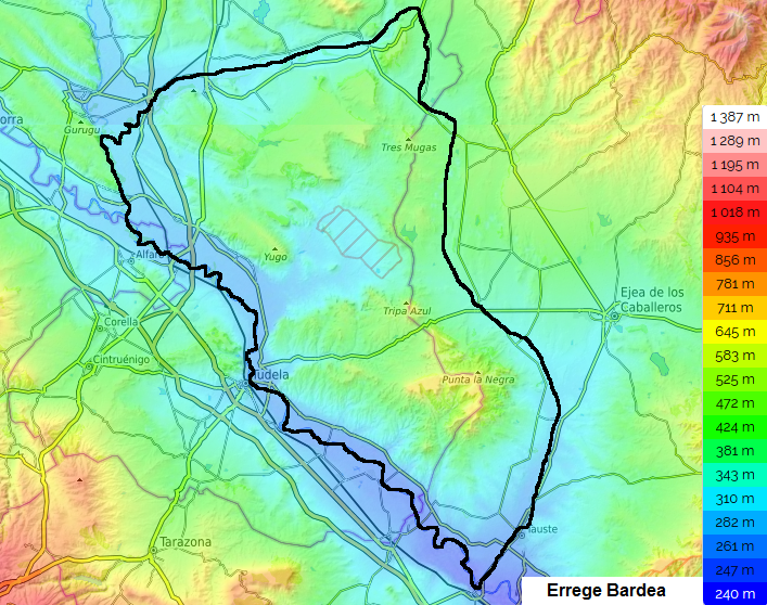 Topographic map showing the Bardenas Reales Range.